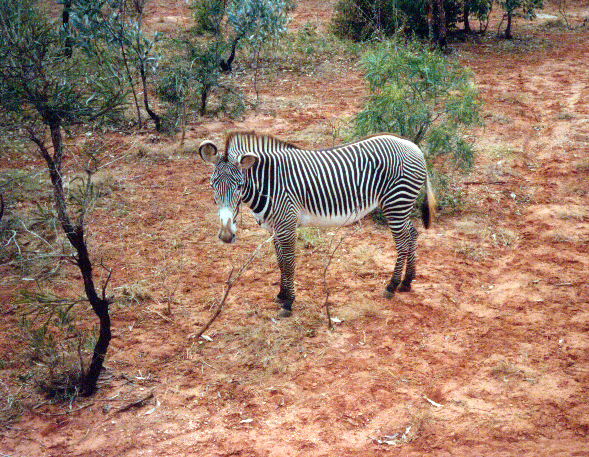 The Pearl Coast Zoo was established by Baron Alistair McAlpine in Broome in the 1980s and many examples of endangered species found a home there. Unfortunately it was closed around 1992 and the animals sold to zoos around Australia. The Zebra was one of the animals on display in 1989.